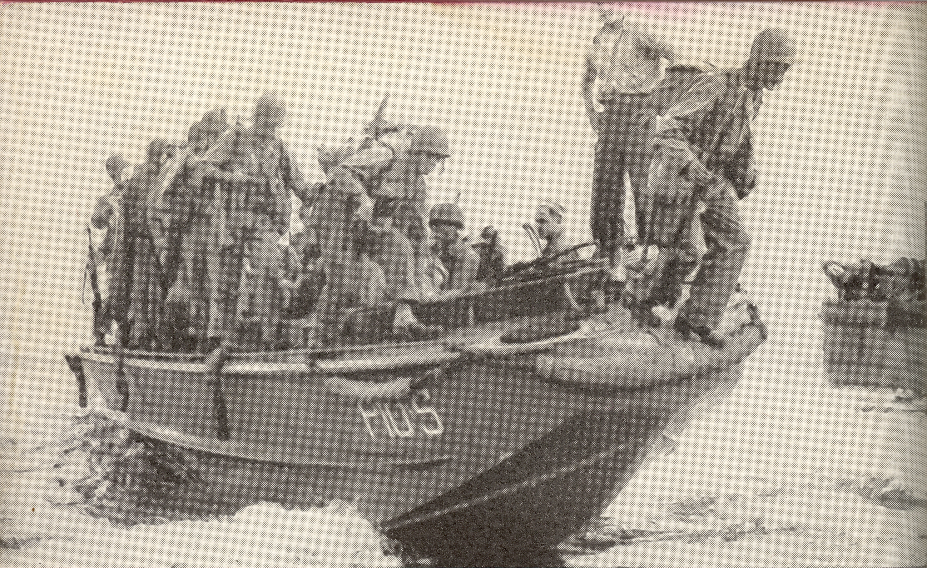 Reinforcements land on Guadalcanal during the Guadalcanal Campaign of World War II.